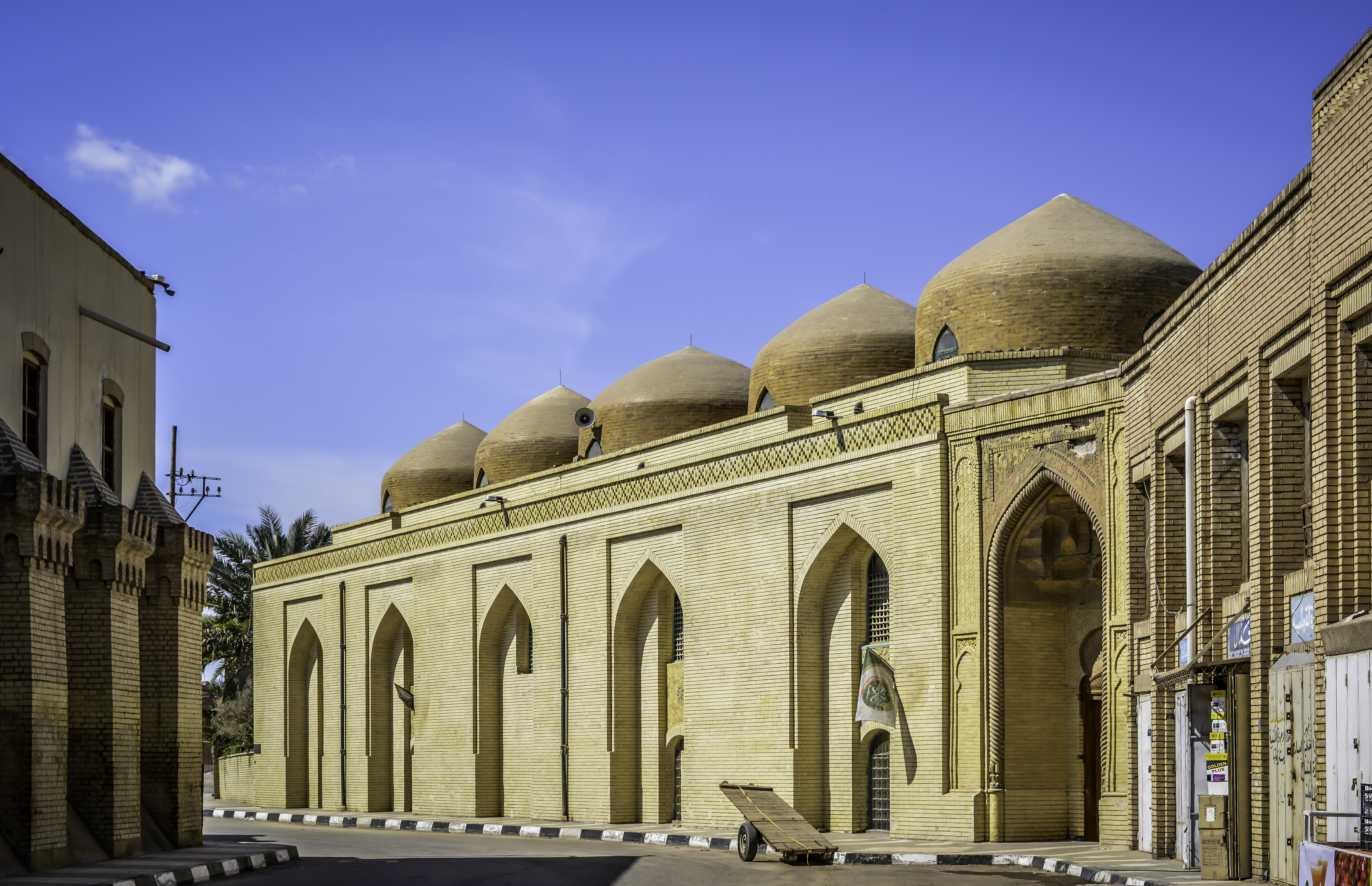 Al-Saray Mosque, Baghdad. One of the heritage mosques in Baghdad was built in 1293.